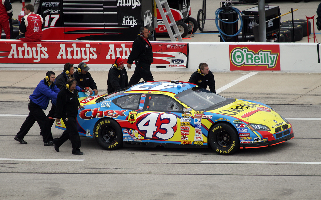 Bobby Labonte's #43 NASCAR NEXTEL Cup car at Texas Motor Speedway